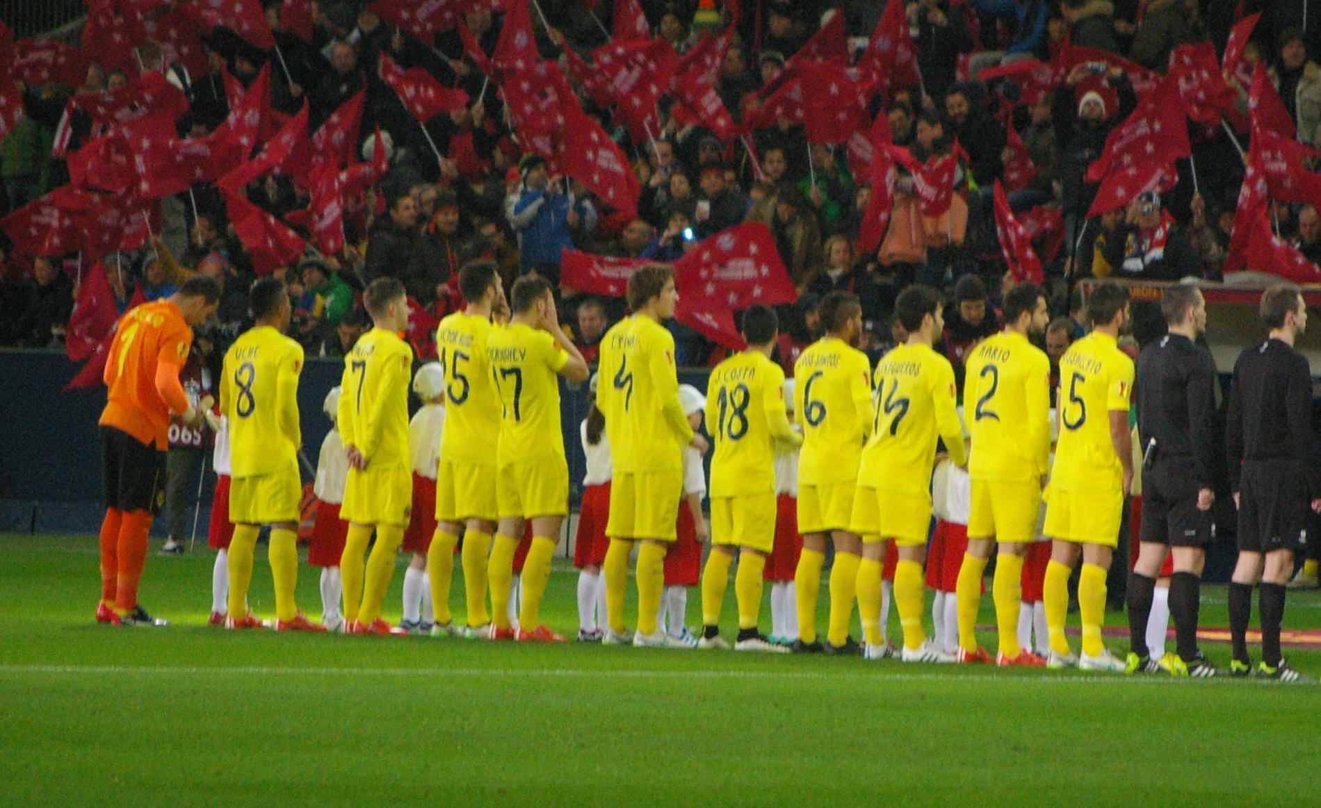 UEFA Euro League Round of 32